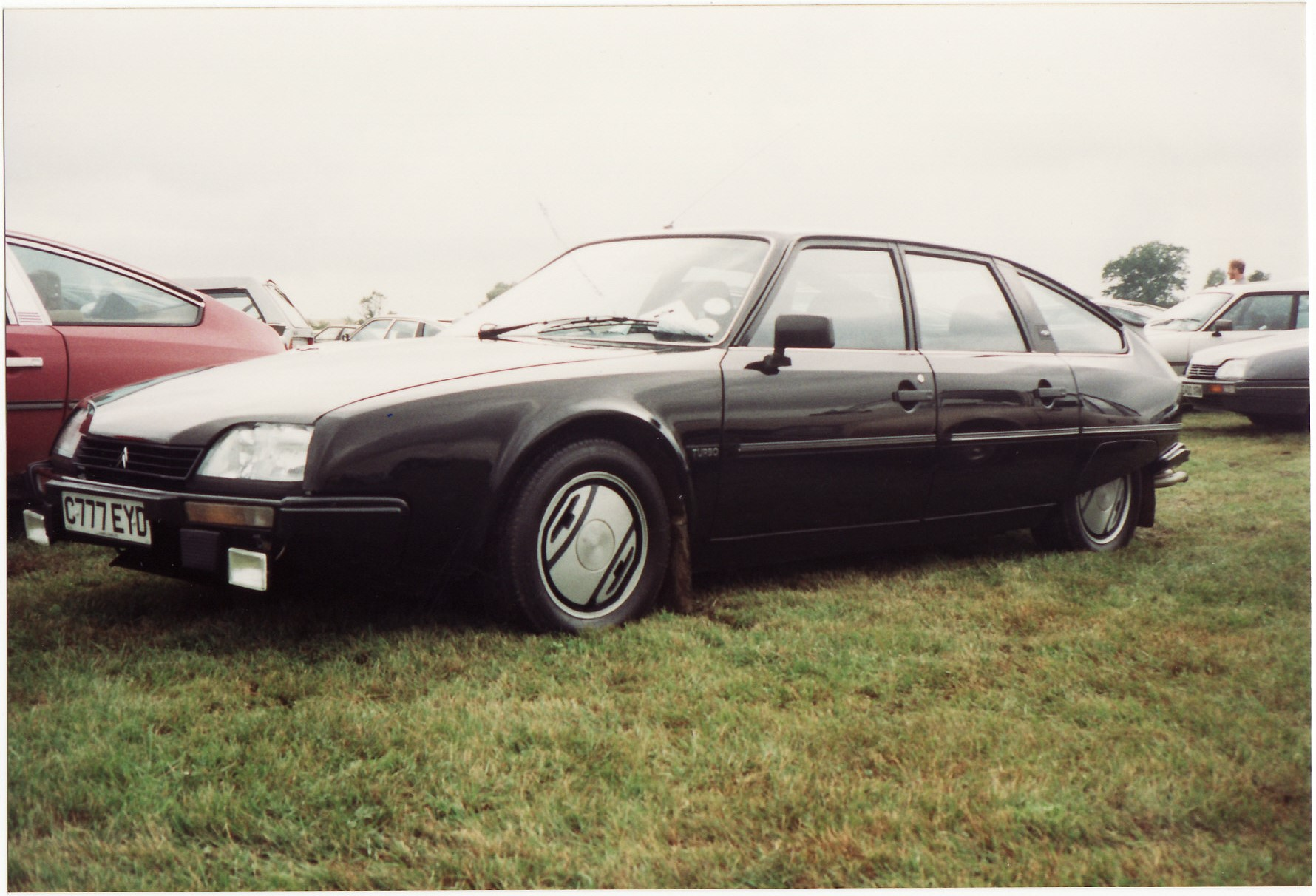 1985 Citroën CX GTI Turbo (first registered in October 1985)